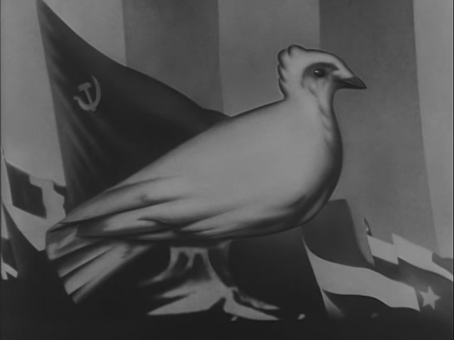 The Big Lie, 1951 anti-communist propaganda movie by the U.S. Army